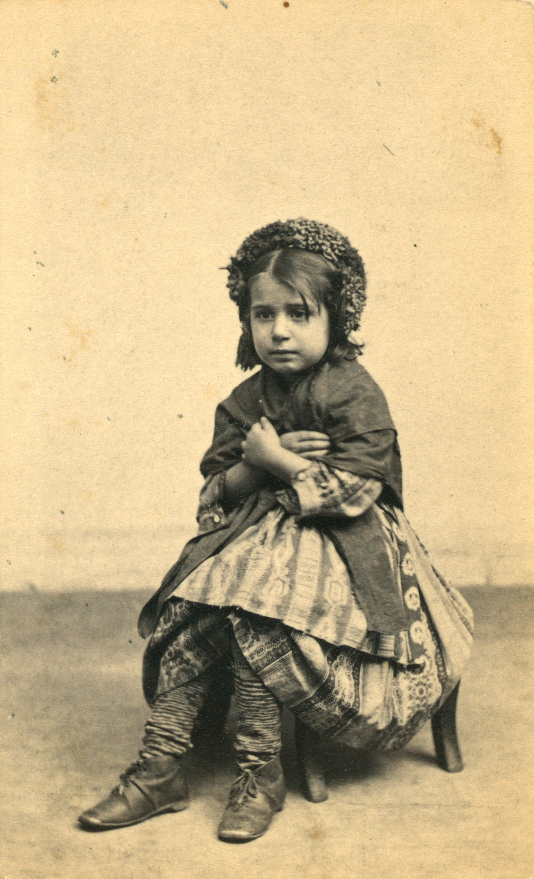 [Italian peasant girl] / E. & H.T. Anthony (Firm), 501 Broadway, N.Y.